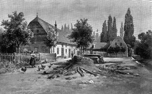 Birthhouse (watermill) of Czech politician František Ladislav Rieger in Czech town Semily